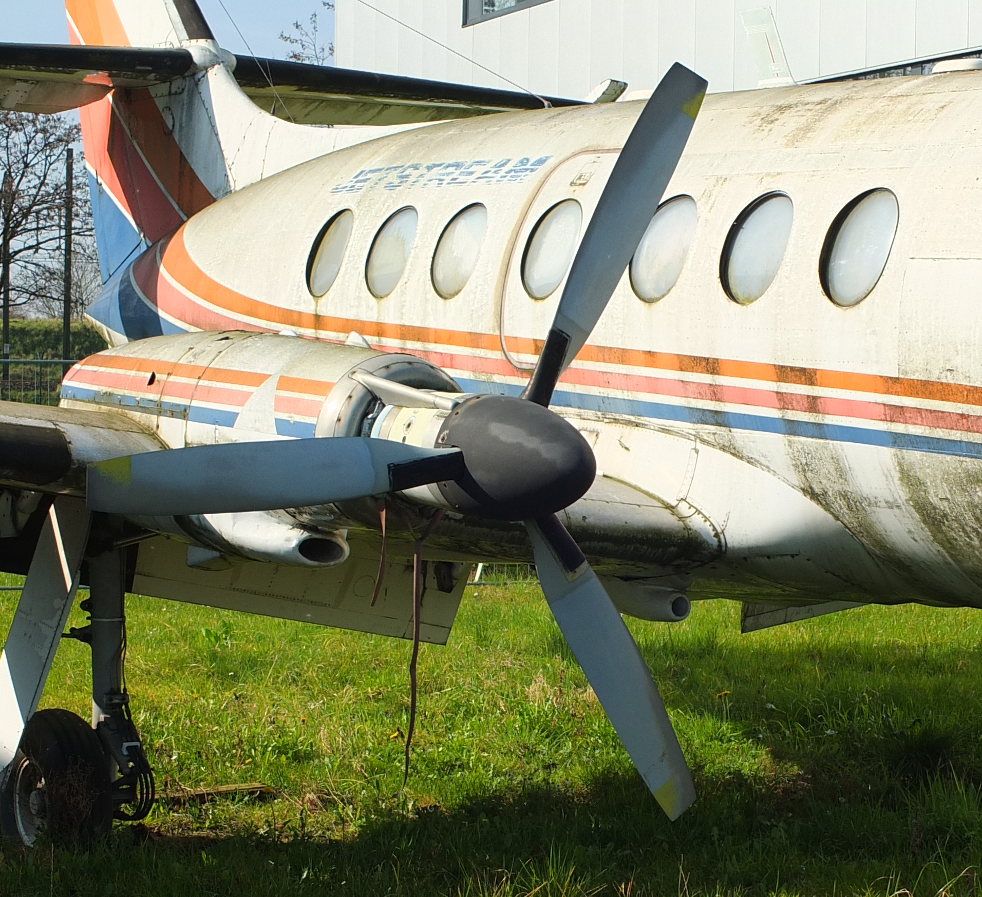 Handley Page HP137 Jetstream 1 OO-IBL (c/n 241) at Antwerp International Airport.